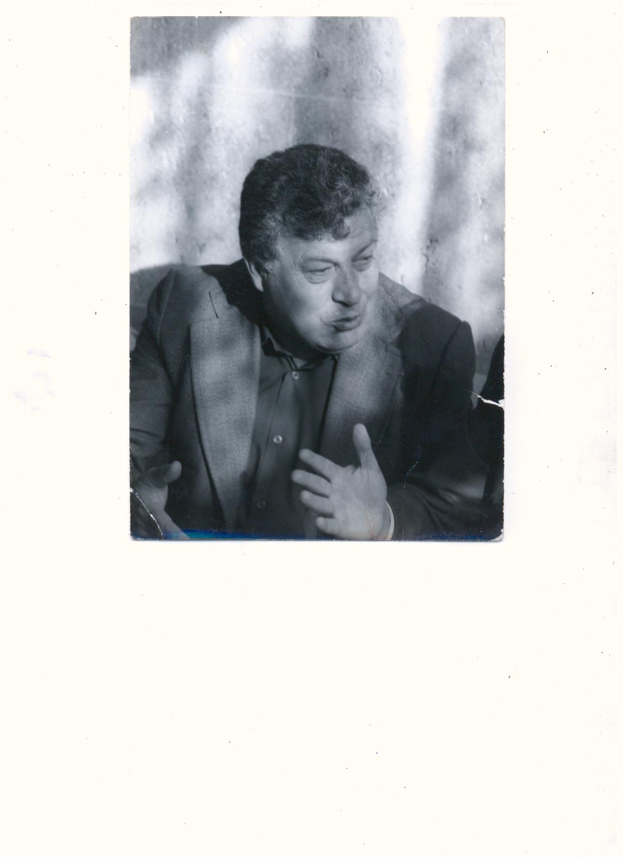 Portrait of Petŭr Alipiev. A family archive.